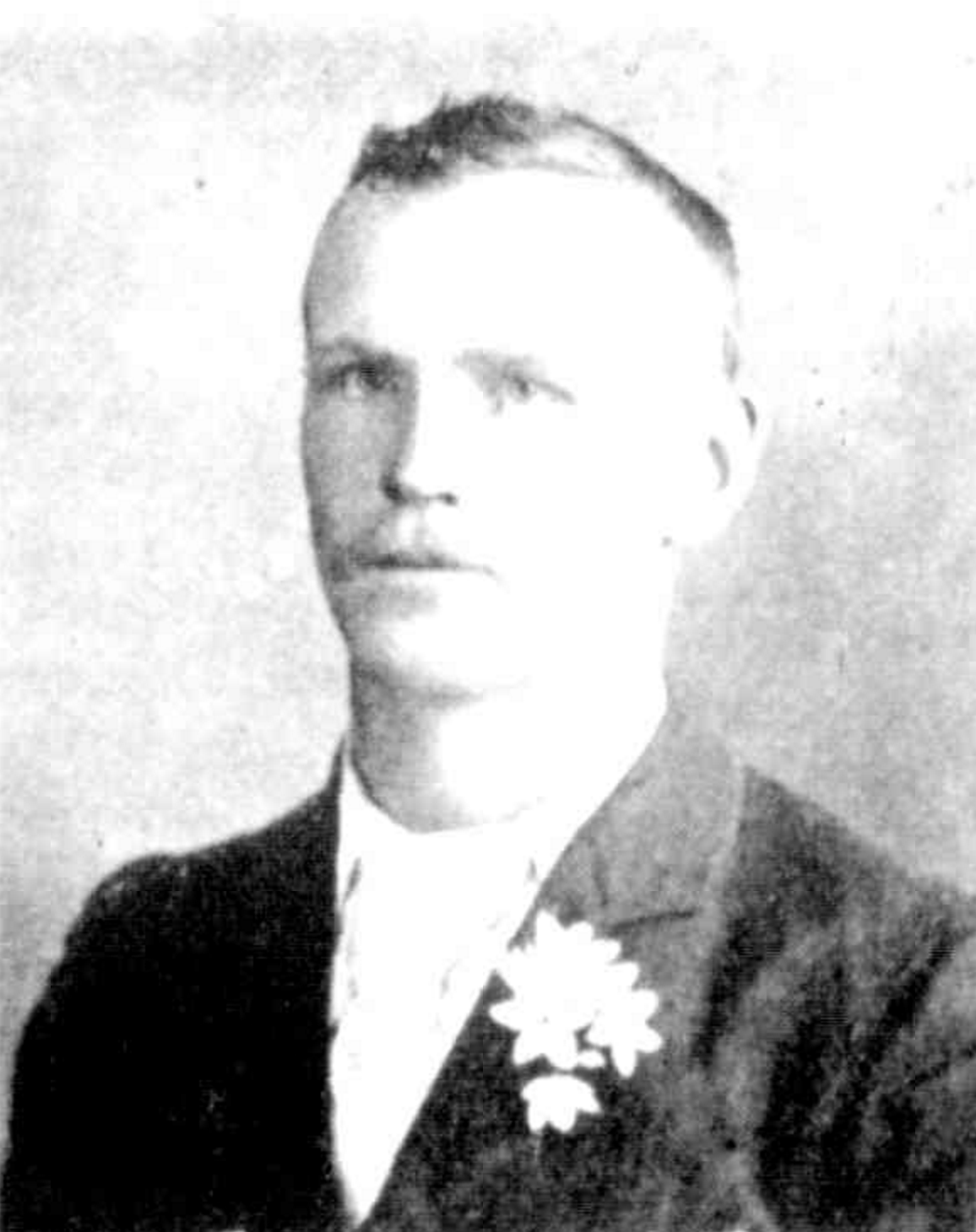 Portrait of Bobadil Hooper published in Melbourne Punch with portraits of several dozen other Victorian Football League players.